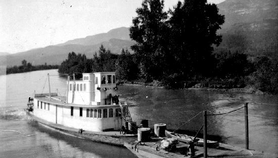 Selkirk (sternwheeler) ca 1900. This is identified in the archival source as being on the Thompson River in British Columbia, but it may also be on the Columbia River in the Columbia Valley, BC.